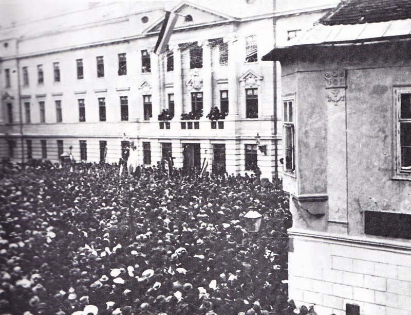 proclamation of State of Slovenes, Croats and Serbs